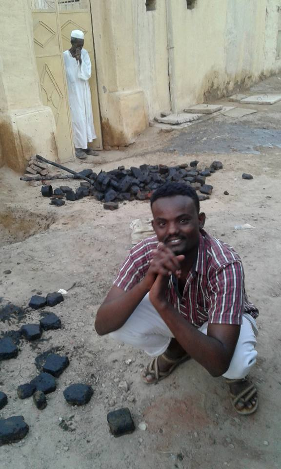 عطبرة السودان This is an image with the theme "Africa on the Move or Transport" from: Sudan